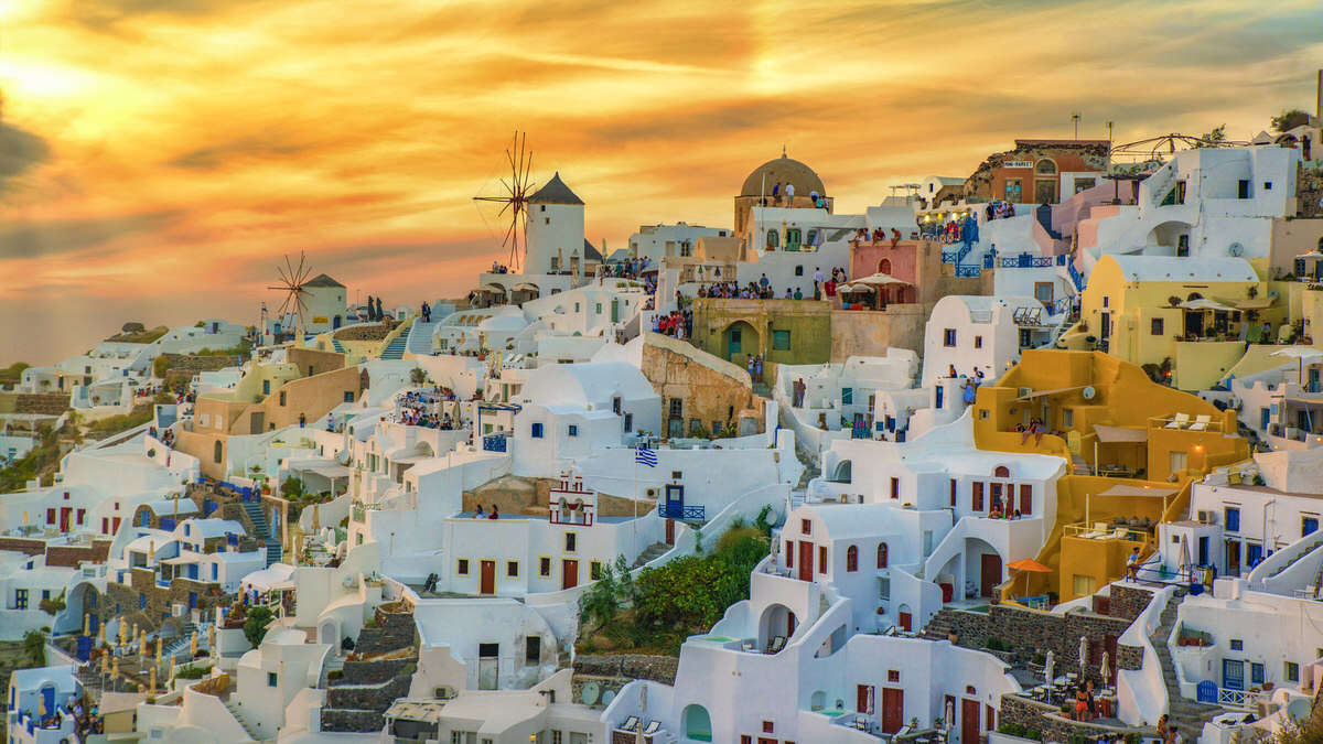 copyright Marian Baciu